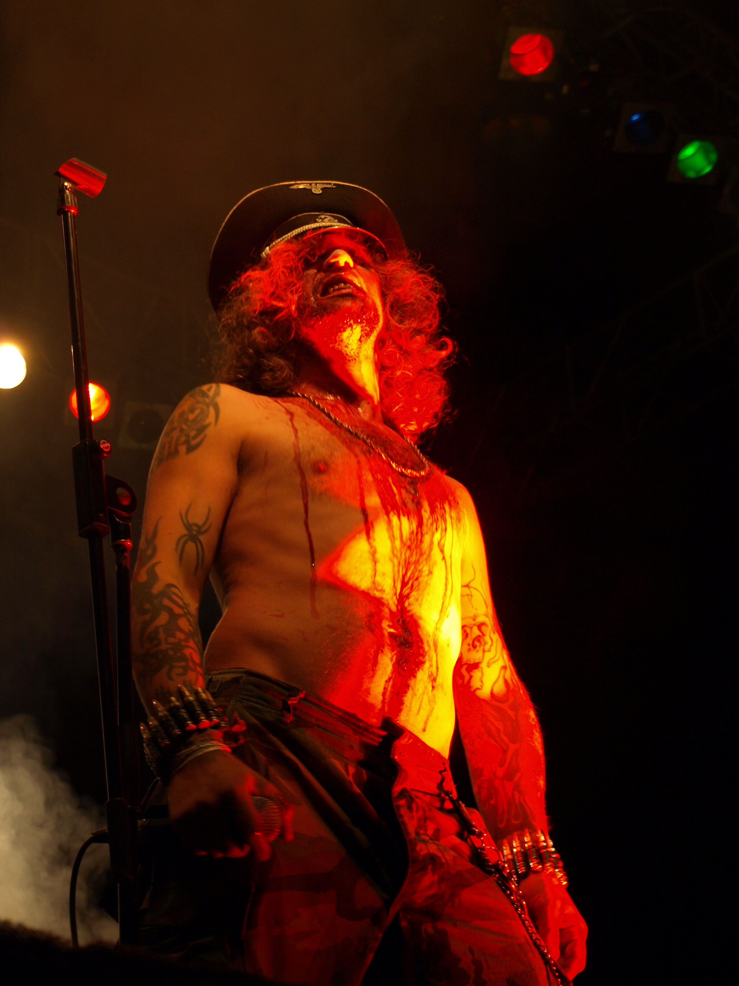 Finnish black metal band Barathrum live at Jalometalli 2008 in Oulu.